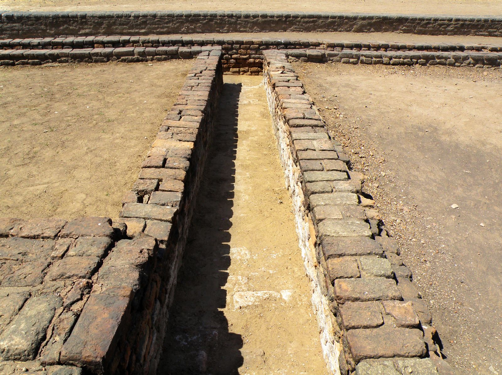 Lothal: Lothal used to be a port in the bornze age. It is a Harappan site. The remains found here date back to 2900BC. Lothal had a very sophisticated system for waste management. All the drain met with the main sewage line at right angles. There were 2-3 steps built in the drains to filter out solid wastes so that only liquid waste was released into the sewer. This was then carried away to the sea by the current of the river Sabarmati